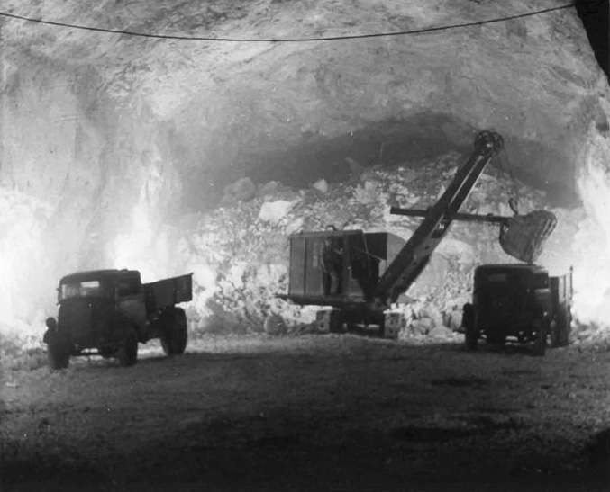 Construction of the REME Chamber inside the Rock of Gibraltar